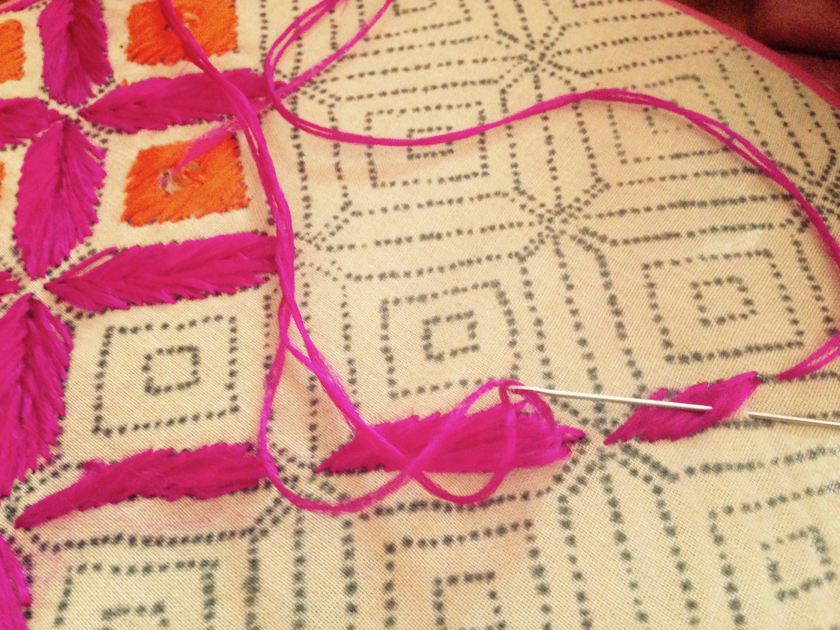 Close-up of contemporary embroidery technique by female embroiderer in Rajpura, Patiala district, Punjab, India